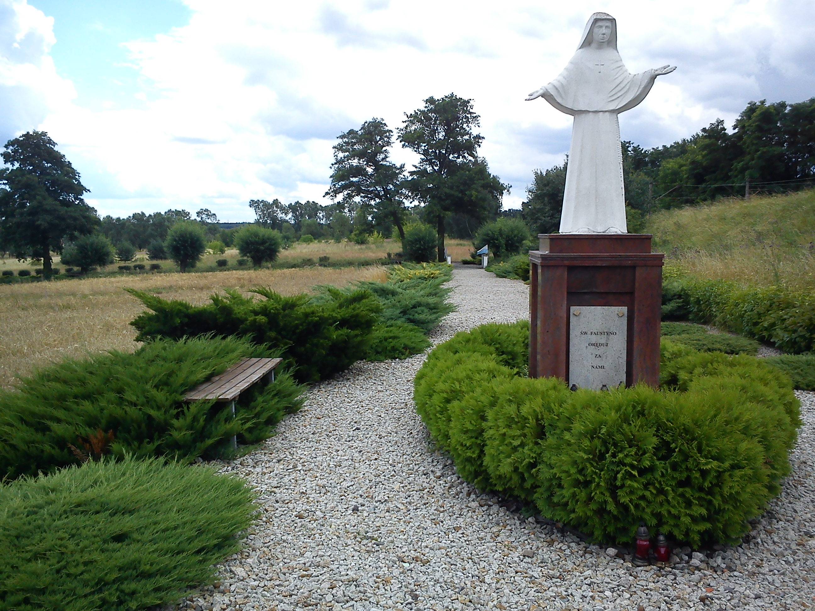 Faustyna Kowalska Way in Kiekrz.